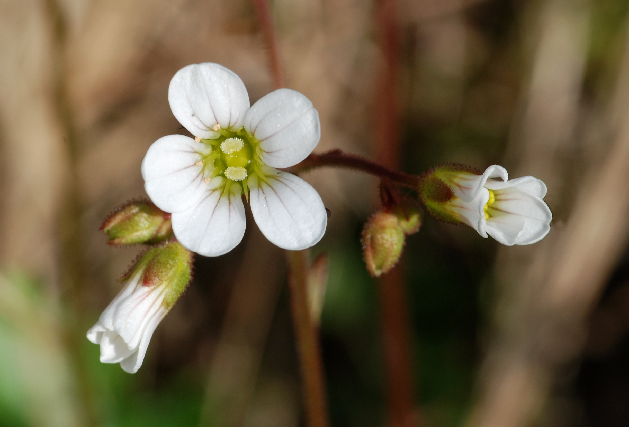 Meadow Saxifrage, elevation 530 m. Seia, Portugal.